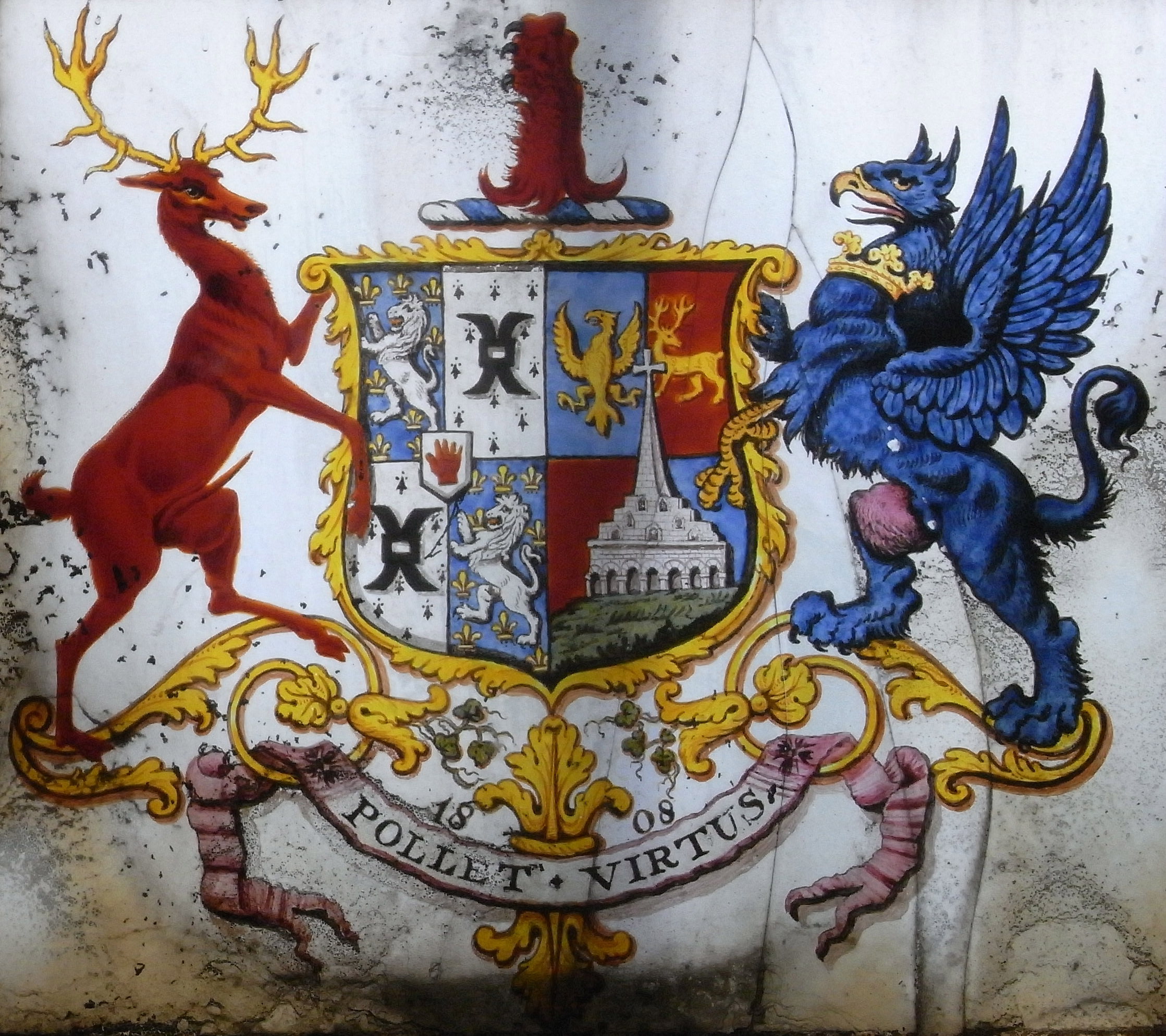 1808 commemorative stained glass window in Shute Church, Devon, south window of south transept, showing arms of Sir William Templer-Pole, 7th Baronet (1782-1847) impaling the arms of Templer, the family of his first cousin first wife Sophia_Anne Templer (1788-1808), following whose death the window was made. Arms: Baron: quarterly 1st and 4th, Pole; 2nd & 3rd: Mills, impaling femme: quarterly azure and gules, on a mount in base vert the perspective of an antique temple argent of three stories, each embattled; from the second battlement two steeples, and from the top, one, each ending in a cross sable on the pinnacle; in the first quarter an eagle displayed; in the second a stag trippant regardant or (Templer) (Source of blazon of Templer arms based on Parker's Heraldry)